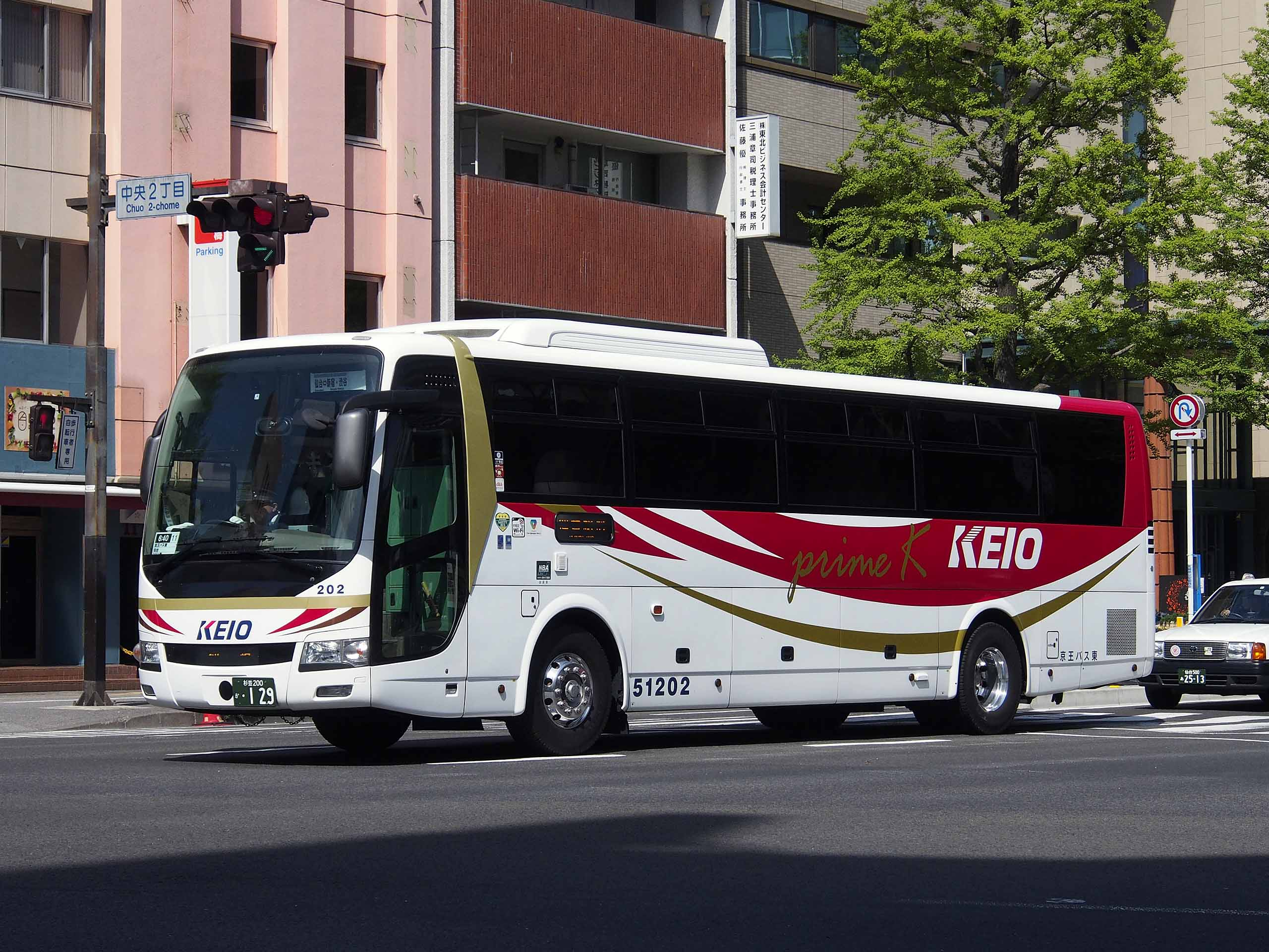 "Prime K", fleet of Keio Bus Higashi. Model: Mitsubishi Fuso Aero Ace QRG-MS96VP License plate: TKM200KA0129 Sendai Chuo 2chome 20190429 jawp